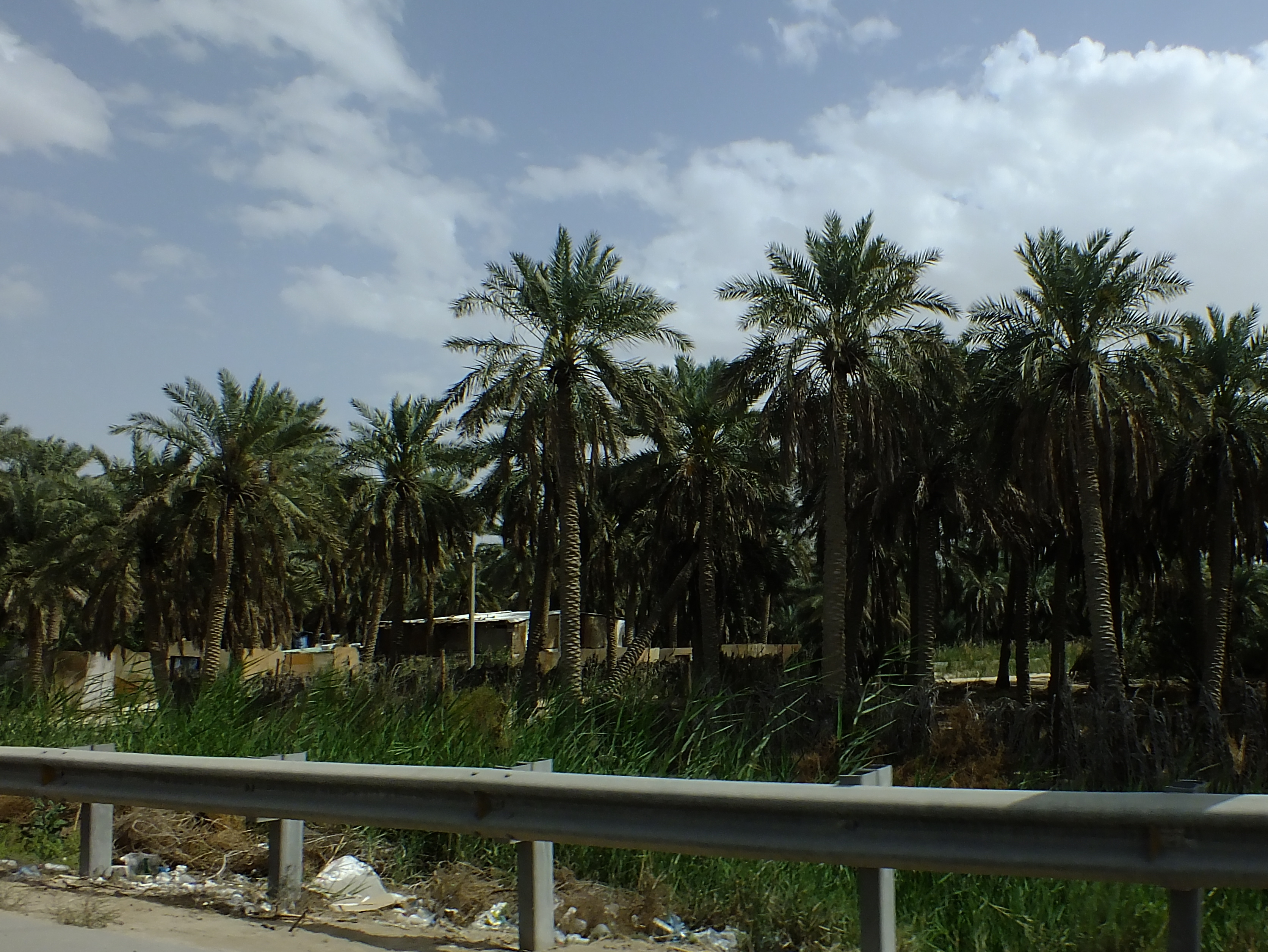 Palms